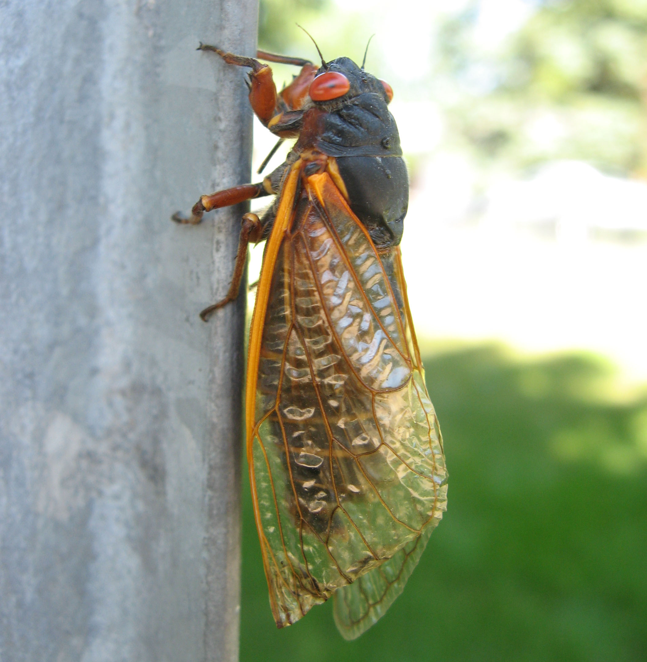 17 year Cicada found in Chicago, IL, USA